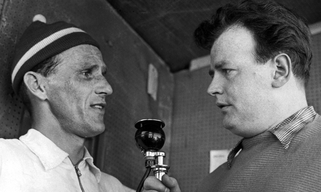 Sixten Jernberg is interviewed by Sven "Plex" Petersson during the Swedish Championship in Kalix 1958.